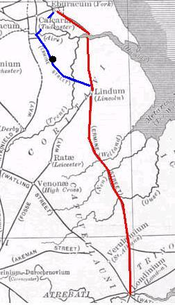 I, the creator of this work, hereby grant the permission to copy, distribute and/or modify this document under the terms of the GNU Free Documentation License, Version 1.2 or any later version published by the Free Software Foundation; with no Invariant Sections, no Front-Cover Texts, and no Back-Cover Texts.